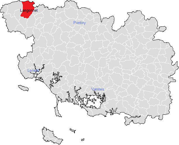 placement Langonnet in Morbihan